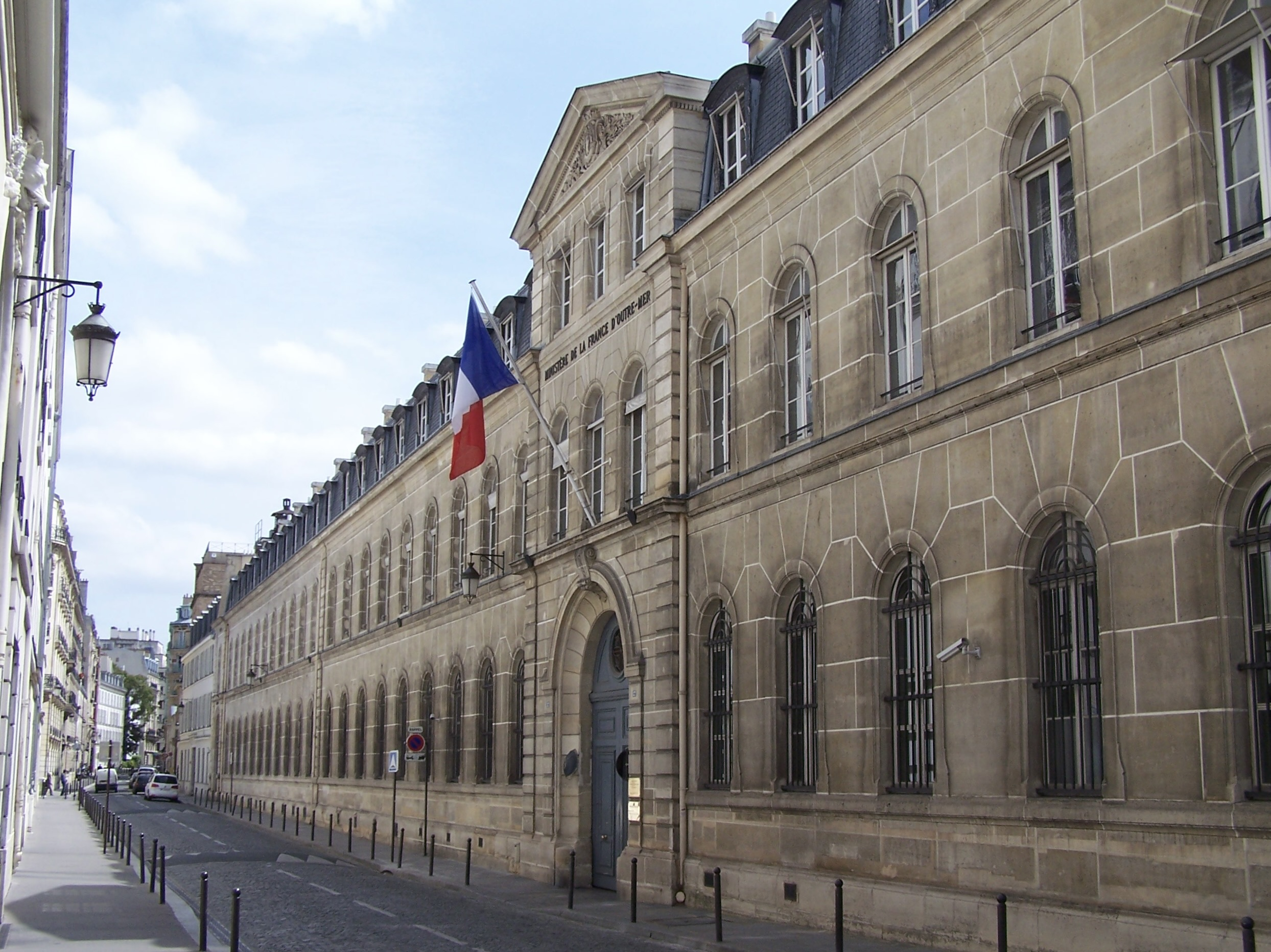 Entrance of the Ministère de l'Outre-mer (Overseas) at rue Oudinot in Paris